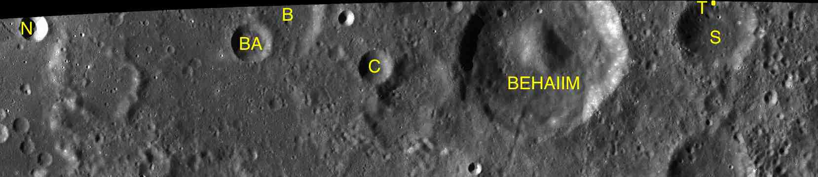 Part of the chart LAC-99 used foir the presentation